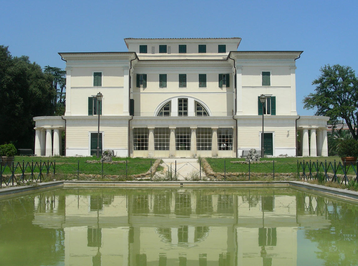 Rome, Villa Torlonia, Casino nobile, north-east side